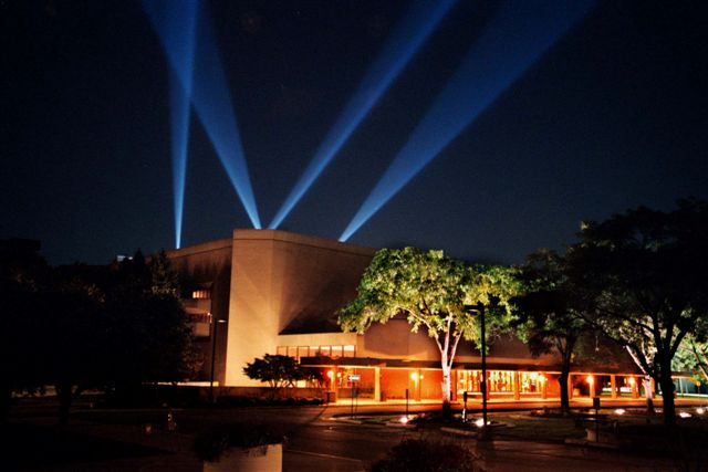 The Whiting Spotlights